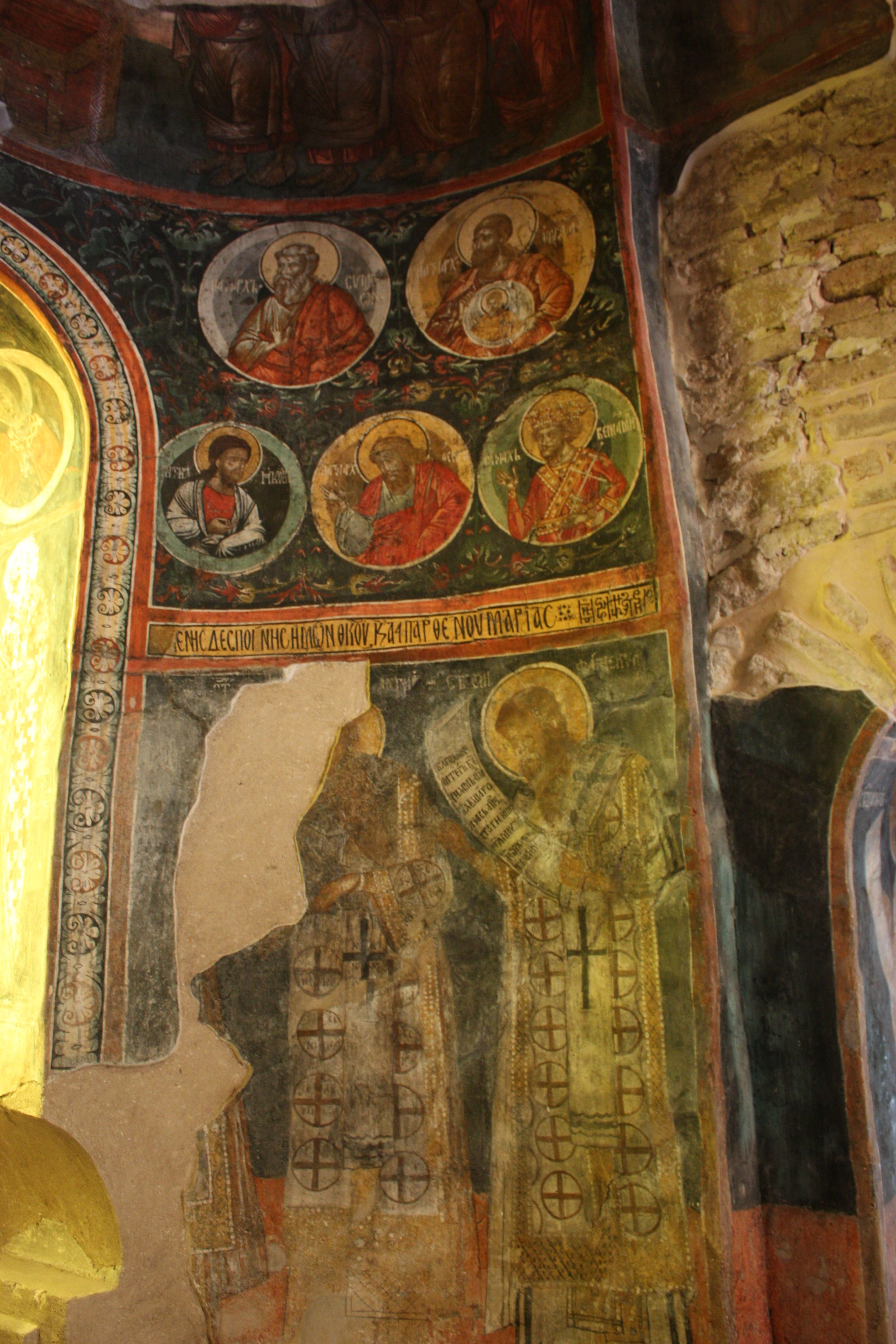 Church of SS. Peter and Paul, Veliko Tarnovo, Bulgaria